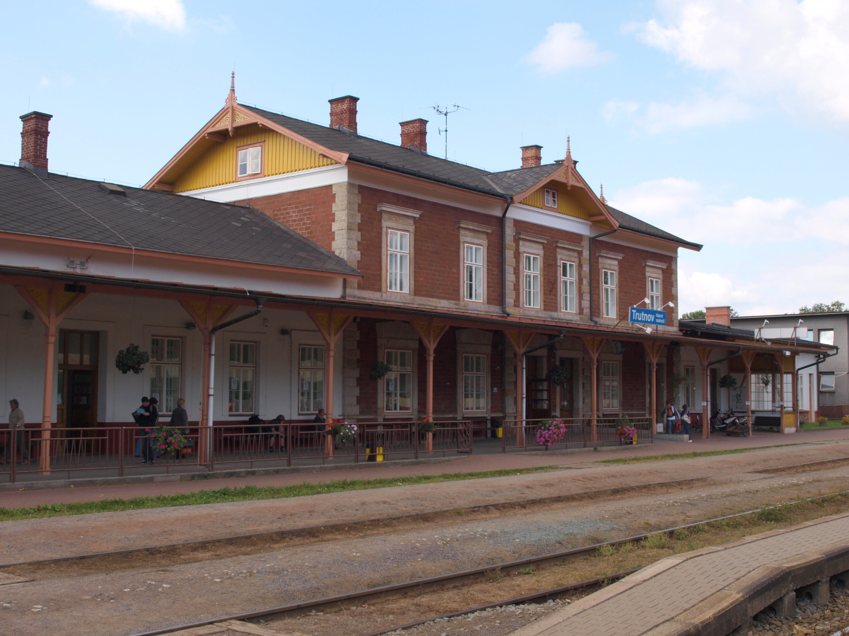 Trutnov main station